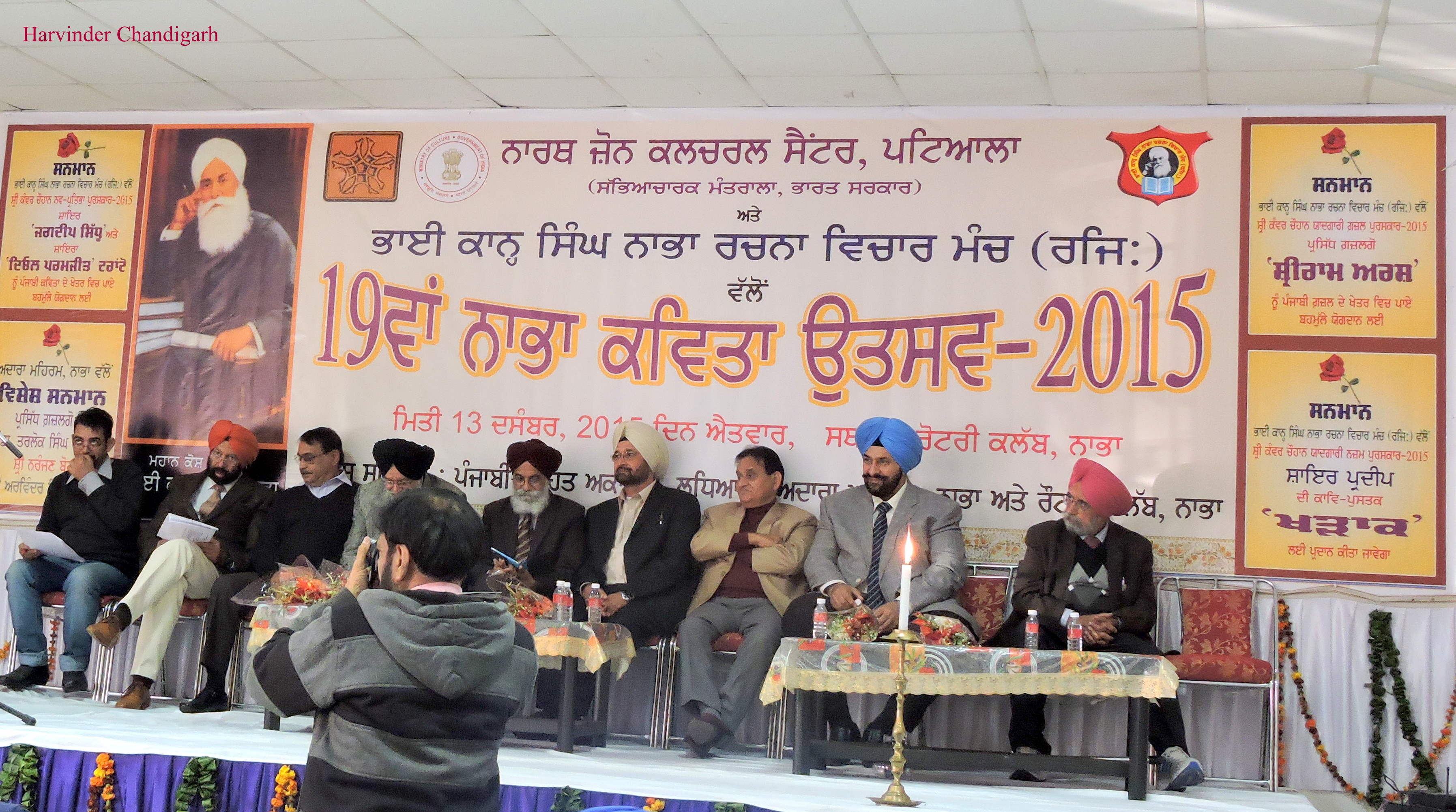 19th Nabha Kavita Utsav,(Nabha Poetry Festival), district Patiala,Punjab ,India